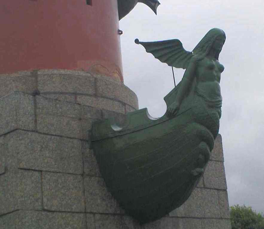 Rostrus navicularis & Tradescantia navicularis (form of Leaf)